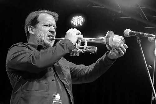 Rob Manzurek in Aarhus, Denmark 2015